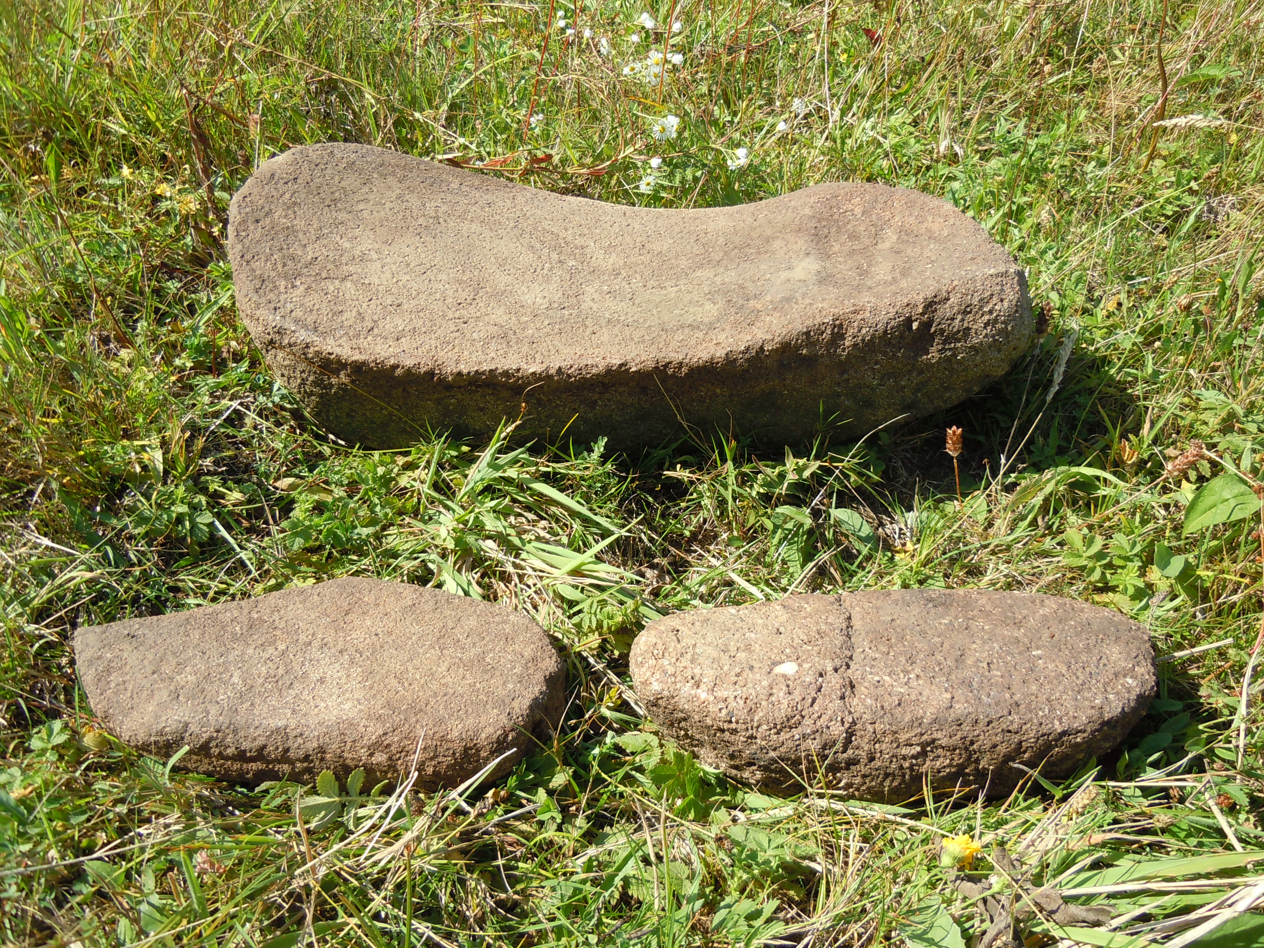 Mealing stone and mano of Dolmen kulture, setllement Klady, Adygea